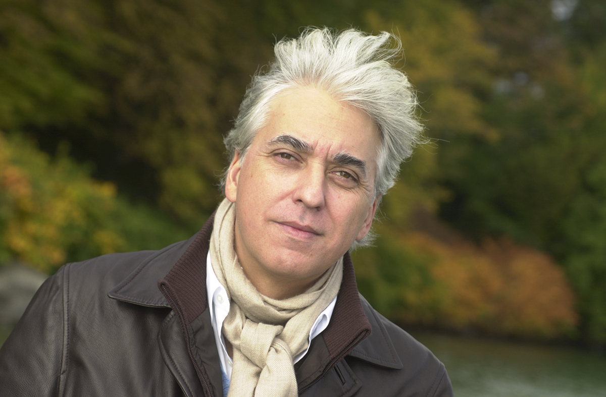 Photo of Artist: Patrick Mimran